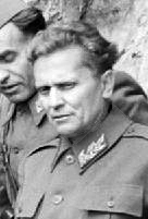 Marshal Tito during the Second World War in Yugoslavia, May 1944